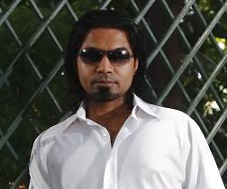 Arvind Ethan David